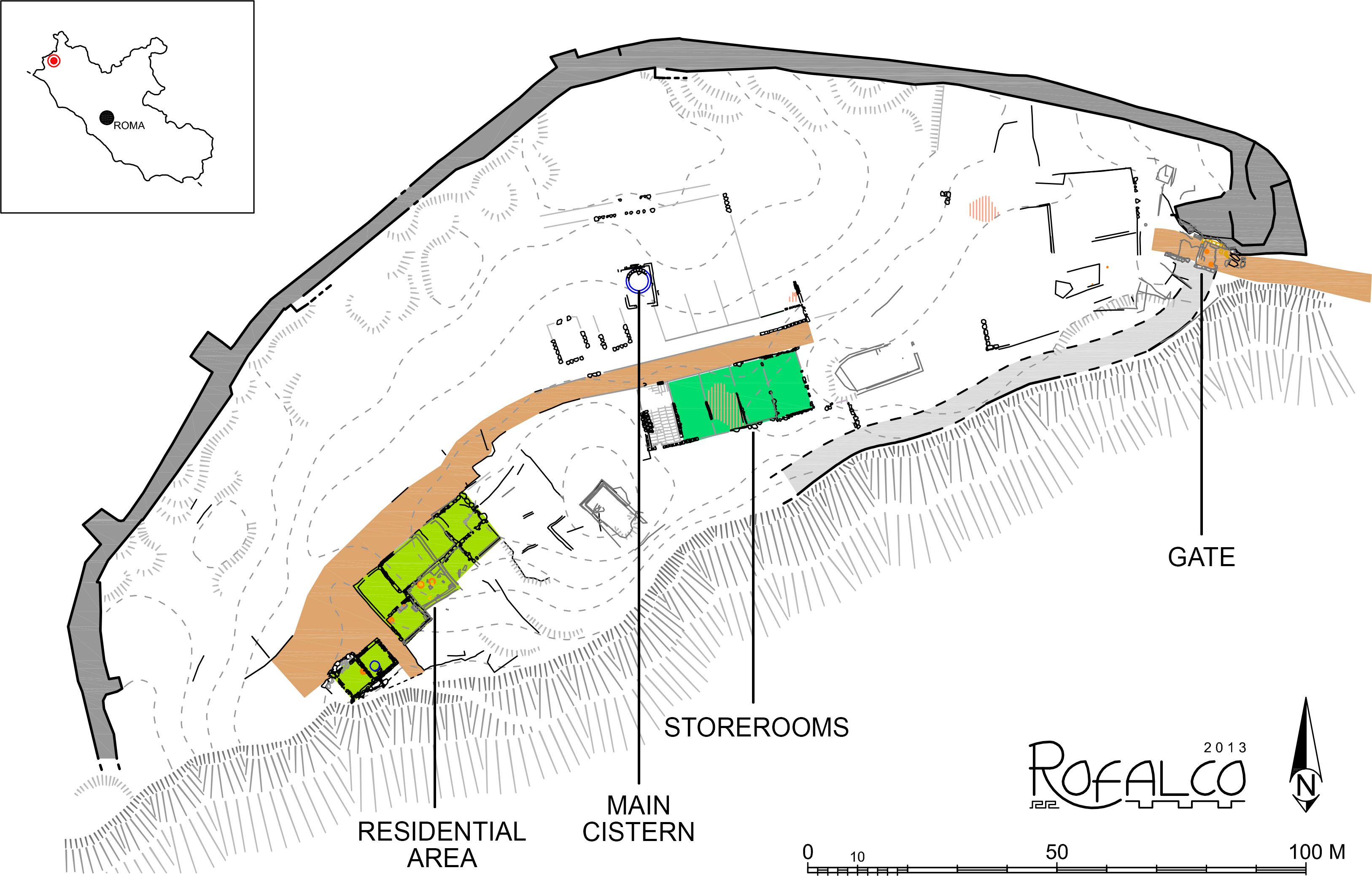 Detailed plan of the site.